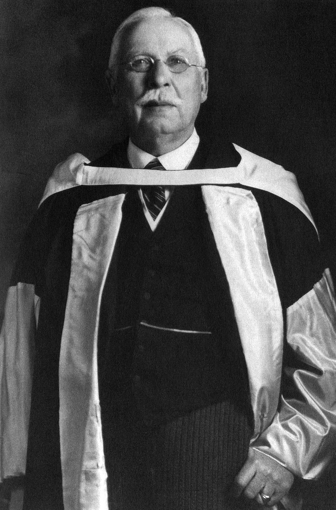 Alexander Cameron Rutherford as Chancellor of the University of Alberta